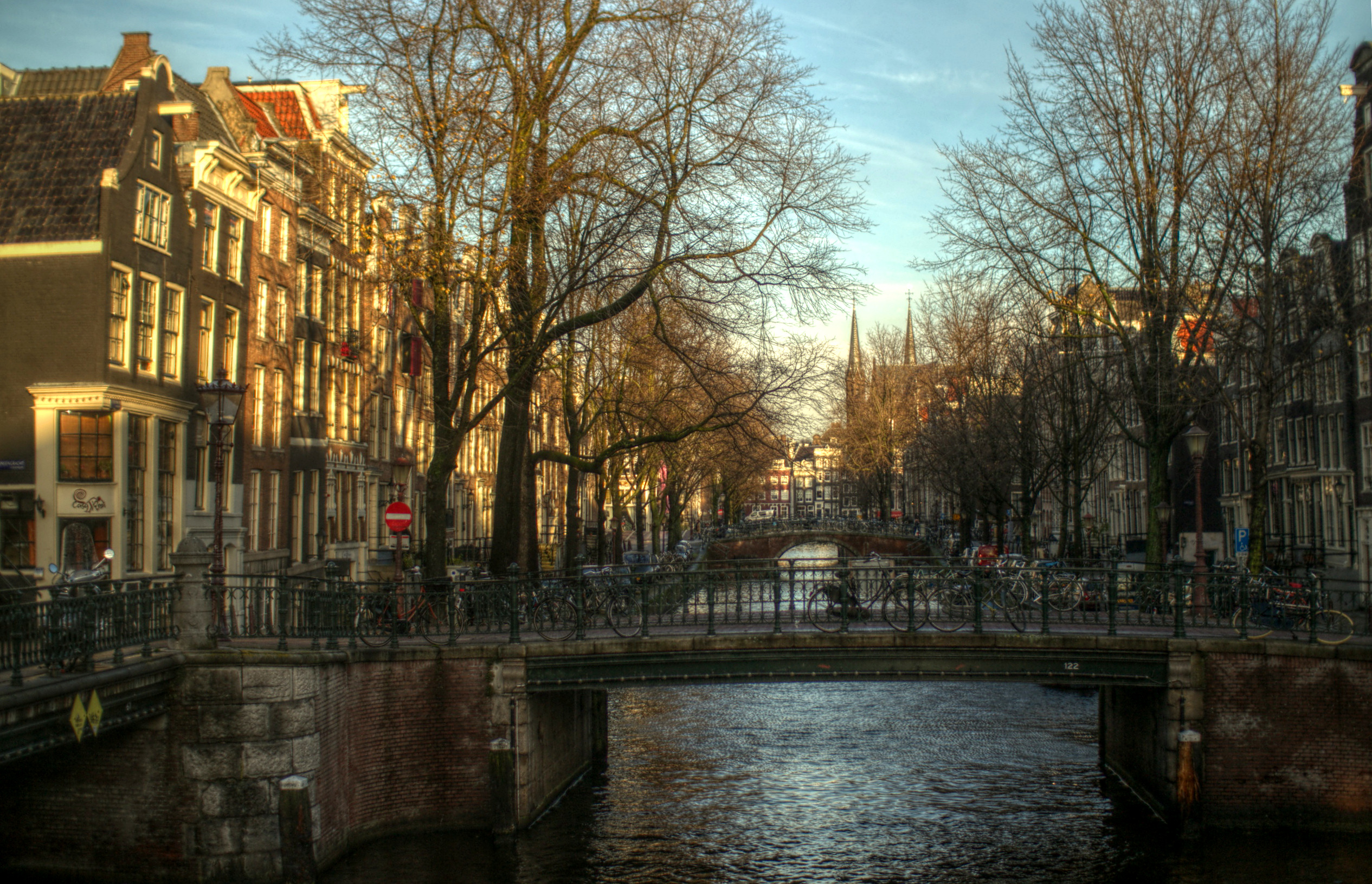 View to the northeast of the Beudekerbrug (nr 122) over the Leidsgracht canal in Amsterdam. December 2012